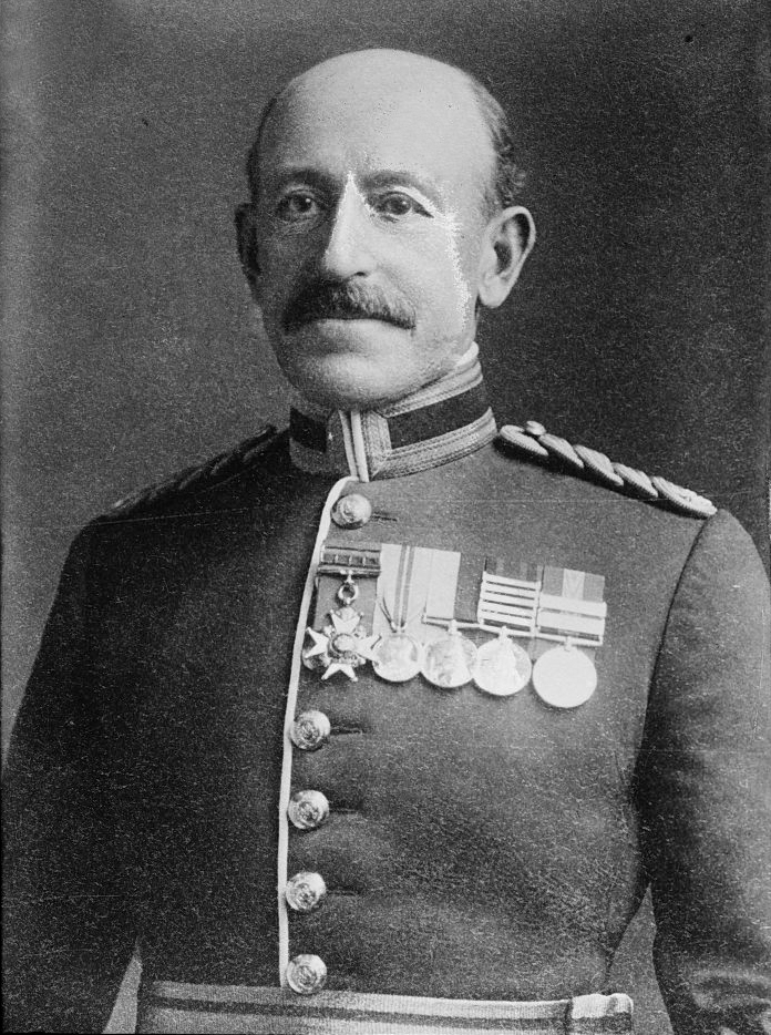 Brigadier-General H. J. S. Landon of the British Army. Date is unclear, but he was promoted Brigadier-General in 1910 and Major-General in late 1914 or early 1915, so between those dates. The medal on the left of the image is the insignia of a Companion of the Order of the Bath, which he was awarded in 1911. The other four decorations are [unknown], the Queen's Sudan medal [?], the Queen's South Africa Medal with five clasps, and the King's South Africa Medal [?]